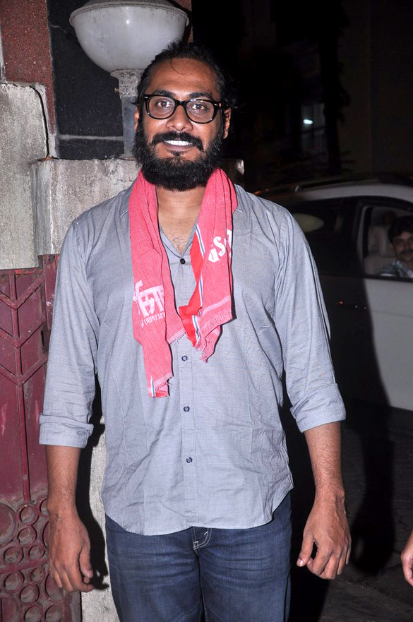 Abhinav Kashyap at 'Gangs Of Wasseypur' screening